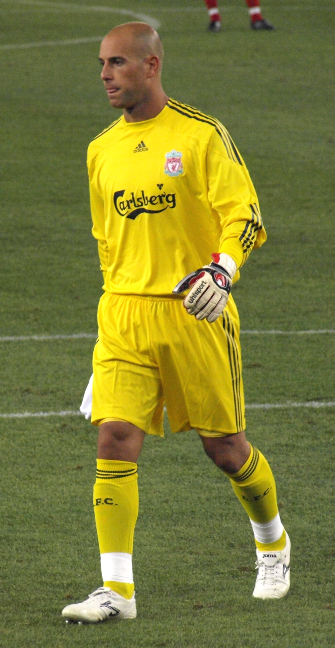 Pepe Reina entering the Stadium Cornella-El Prat to play against RCD Español de Barcelona.